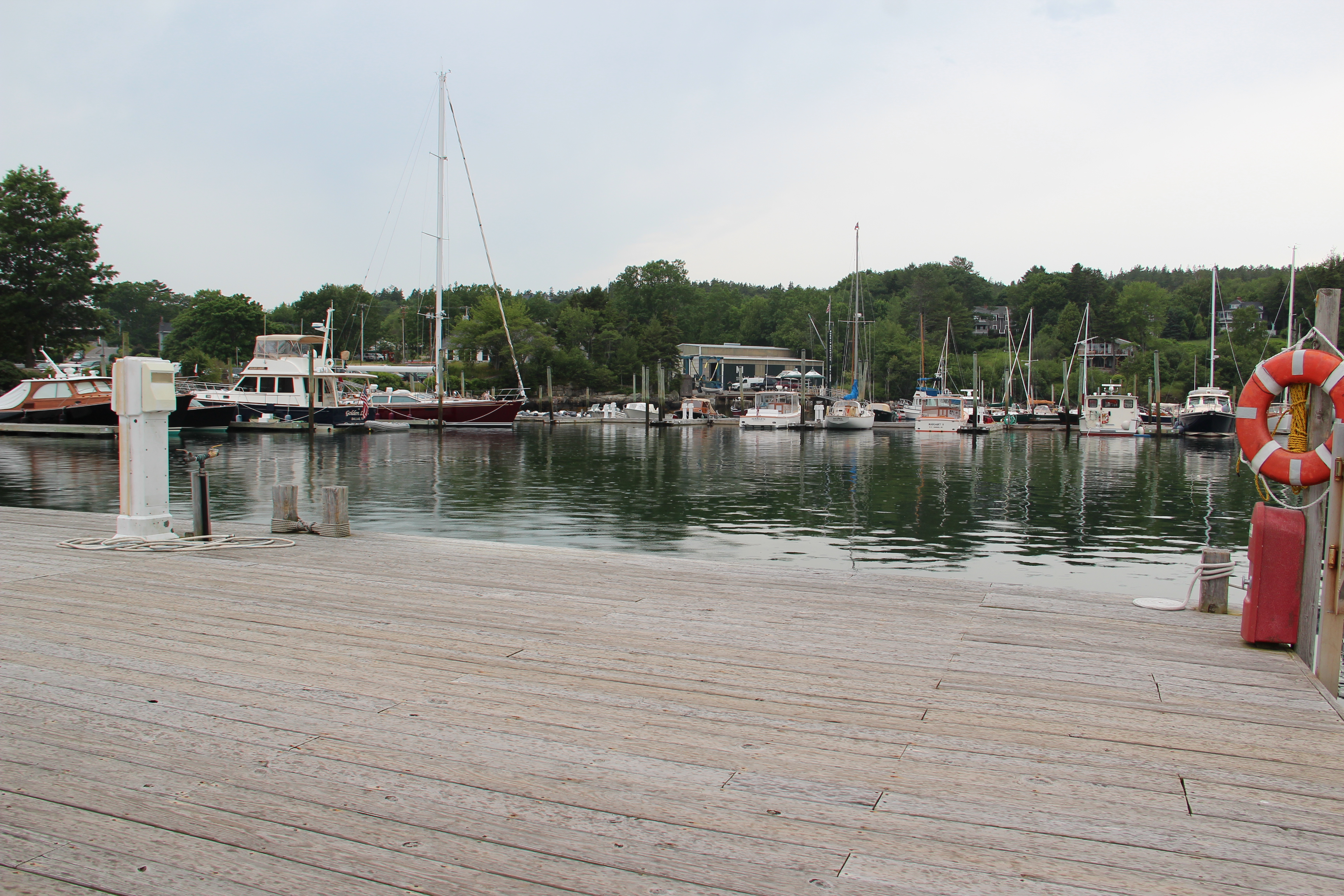 Northeast Harbor, Mount Desert, Maine, 2012